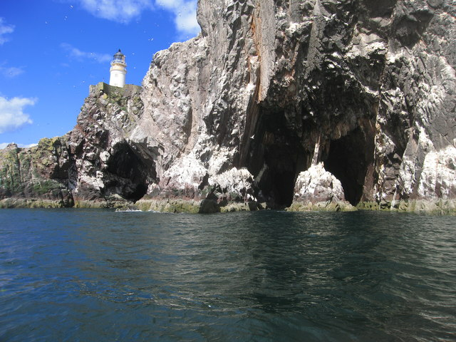 Bass Rock's caves with lighthouse, Firth of Forth, Scotland